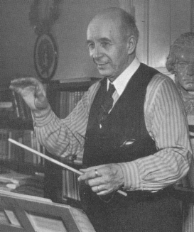 Photograph of the Finnish composer and conductor Väinö Pesola (1886–1966).